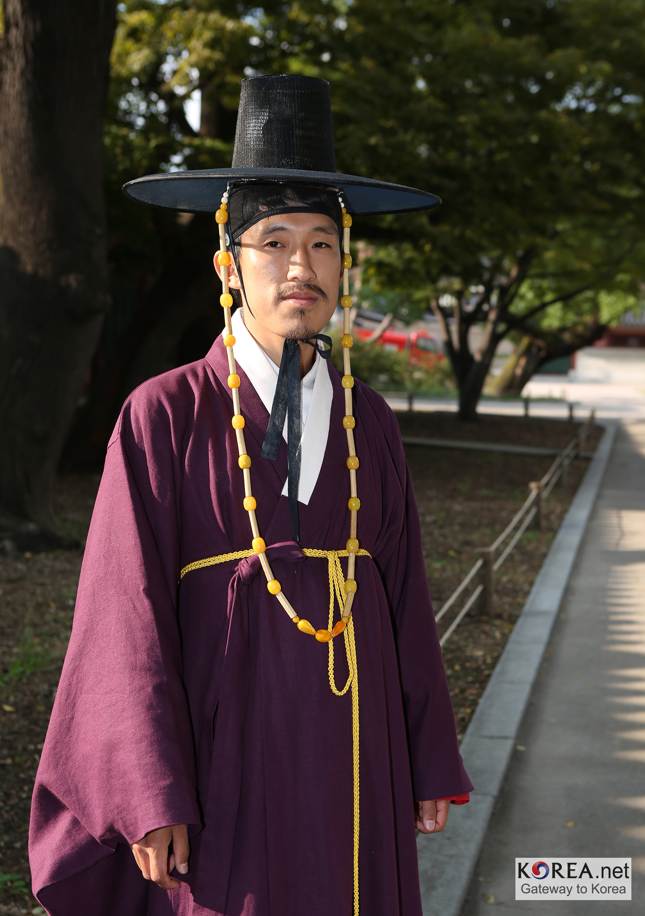 Chuseok Sketch in Changgyeonggung, Seoul